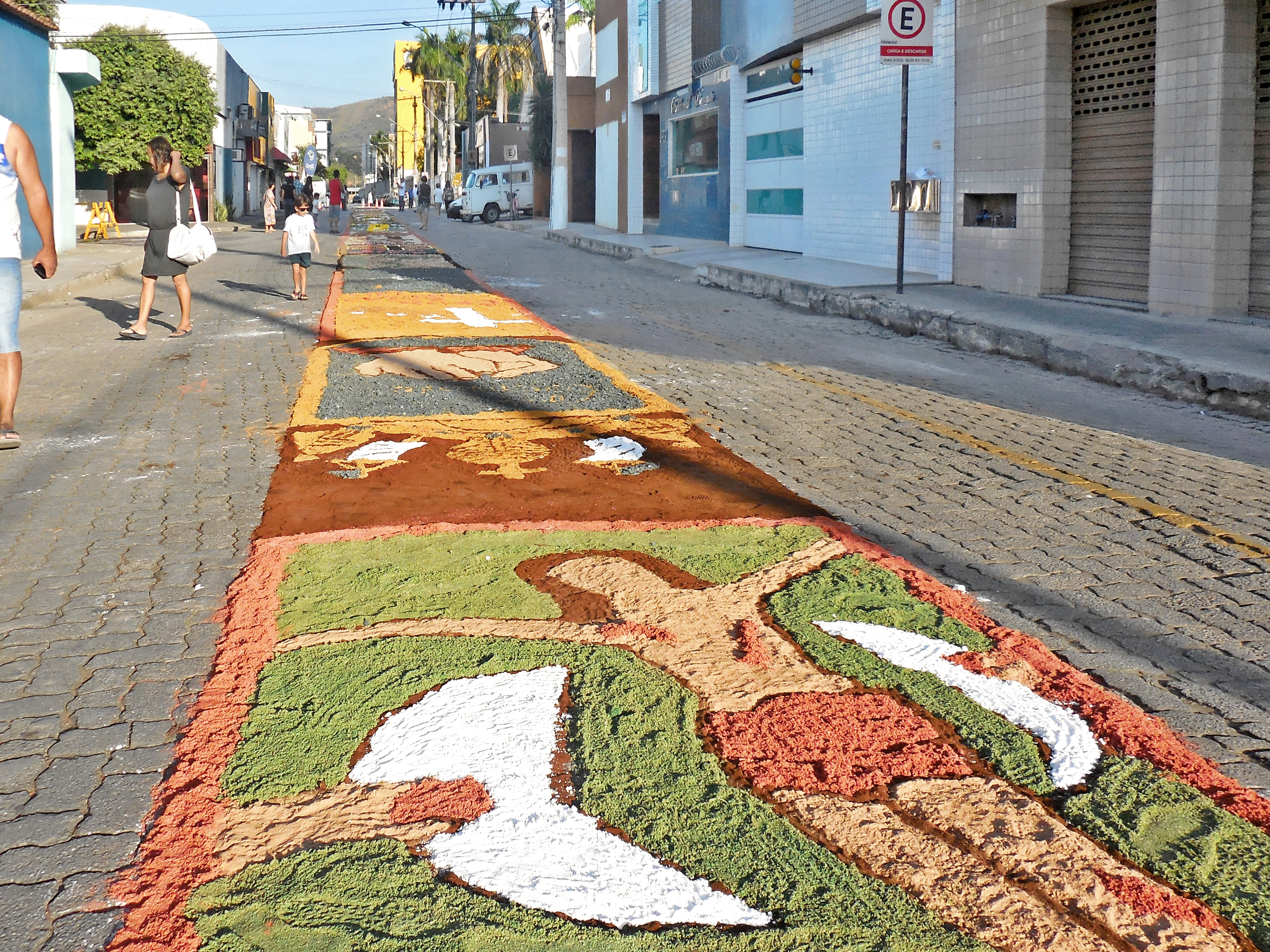 Corpus Christi carpet of the Saint Sebastian Parish before the procession, in Coronel Fabriciano, Minas Gerais, Brazil.